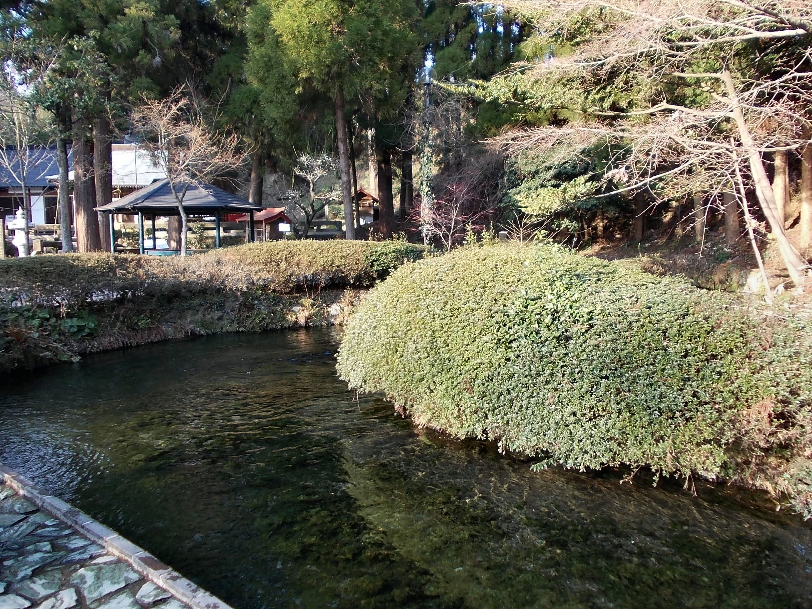 Shirakawa Suigen (Spring Source) in Minamiaso, Kumamoto, Japan